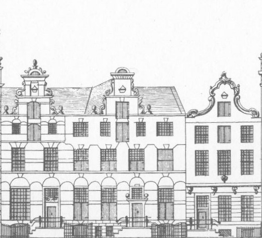 Engravure of the houses on Keizersgracht 211-215